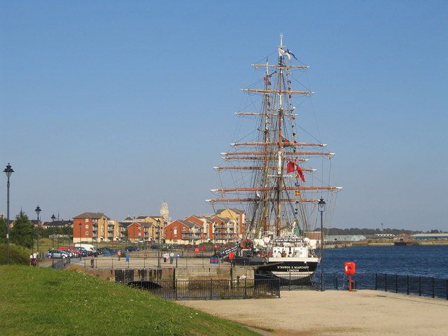 Tall Ship at the Waterfront Barry Waterfront Barry with a visiting Tall ship